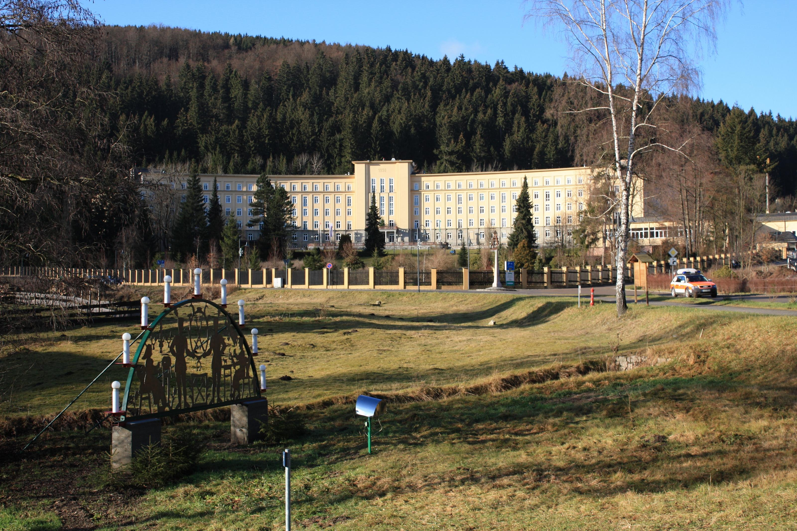 Kliniken Erlabrunn, Breitenbrunn, Saxony, Germany